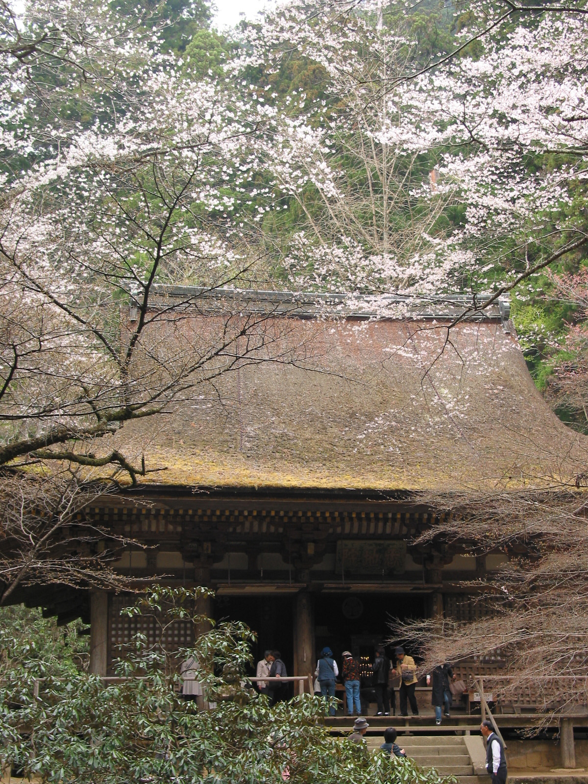 Hondō(Kanjyōdō) of Murouji This architecture was built in 1308 (the end of the Kamakura period), has Japanese national treasure status. 真言宗室生寺派大本山室生寺本堂（灌頂堂） 1308年（延慶元年）鎌倉時代後期 国宝 奈良県宇陀市室生区室生で撮影